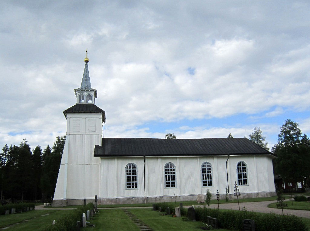 Södra Finnskoga church (Värmland county, Sweden)